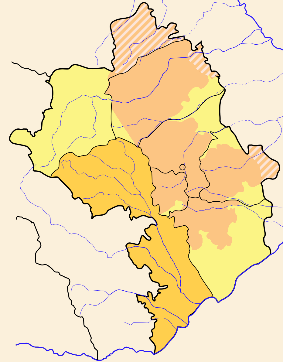 Rayon of Qashatagh in NKR